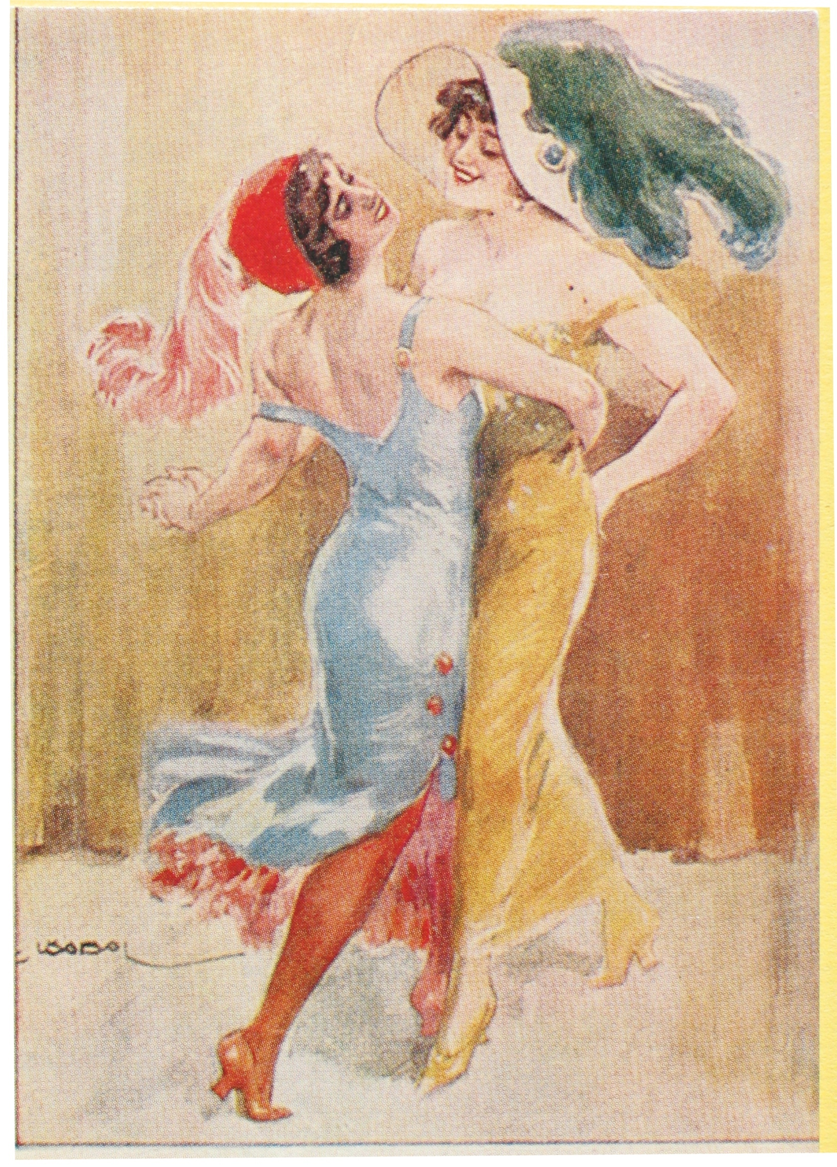 Tango. NEP private soviet postcard 1920s